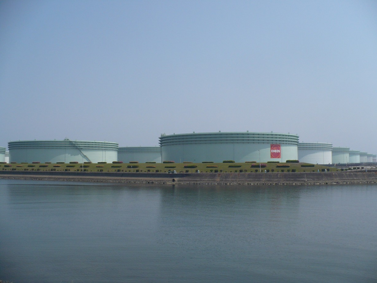 Oil tanks in Kiire base, Nippon oil staging terminal company, Kagoshima city Kagoshima prefecture, Japan